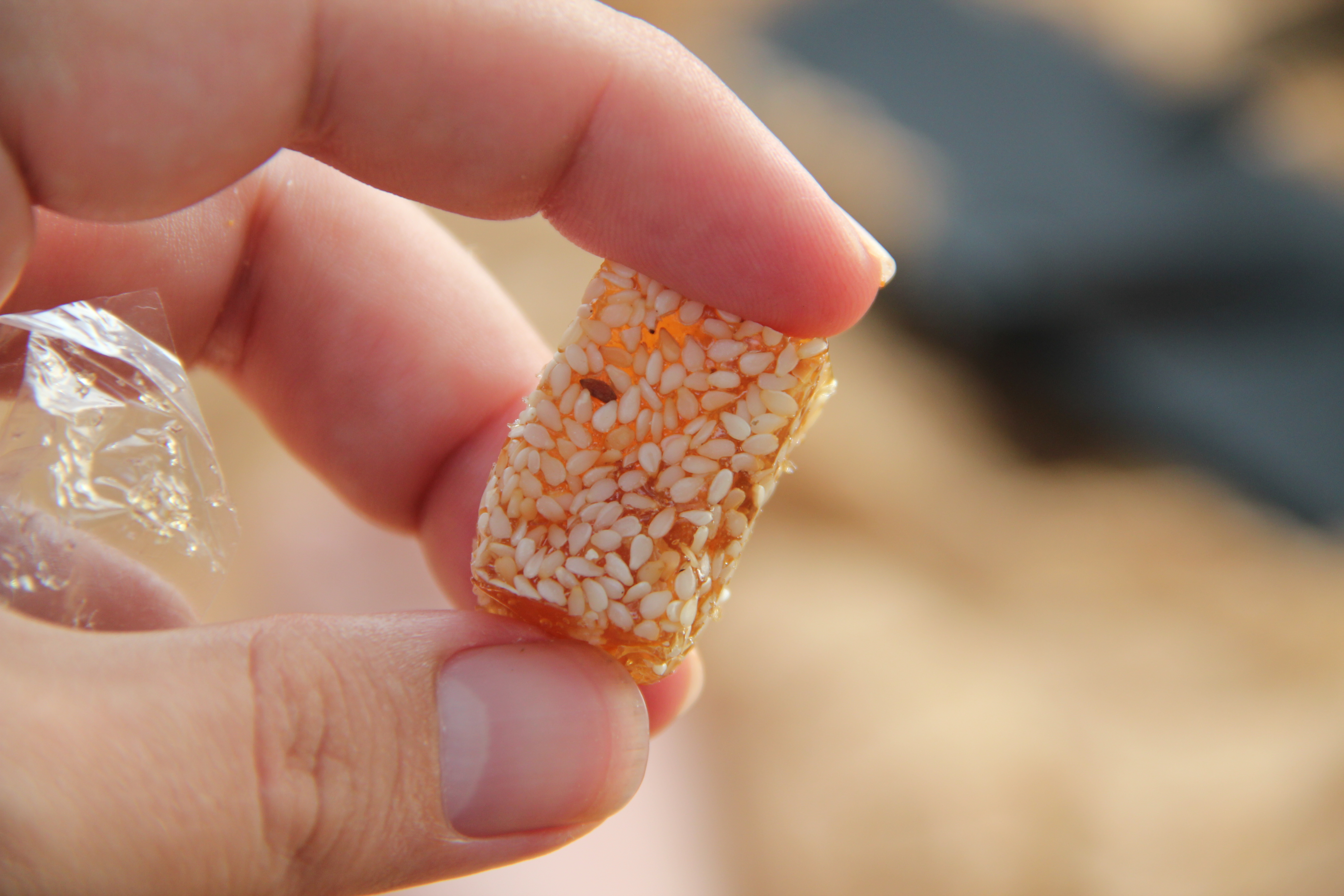 Sesame candy from Huế.